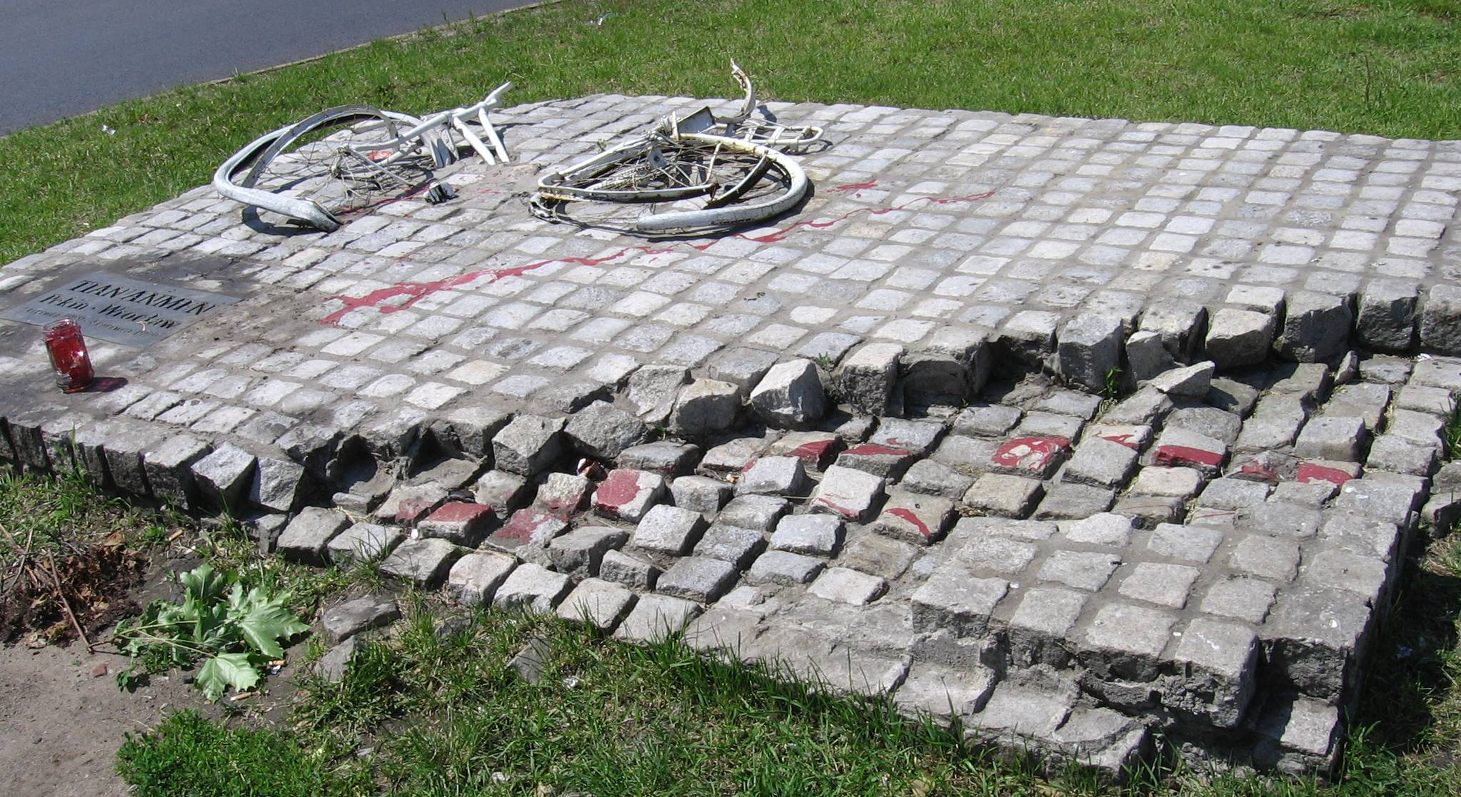 Wroclaw, Poland: the memorial of 10th anniversary (1999) of Tian'anmen Sq. (Beijing, China) massacre, June 4th, 1989 The first version of this memorial was "erected" by Polish students a day after the massacre, June 5th 1989 - as a destroyed bicycle and a fragment of tank-track lying nearby. The version in the photograph was erected ten years later, in 1999, and the symbolism is identical: bicycles against tanks...